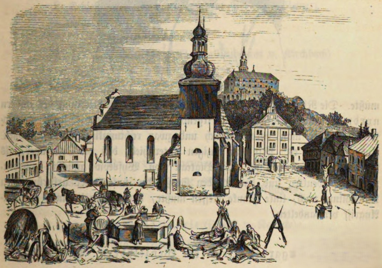 Nachod Caste (engraving taken from p. 297 in source book)